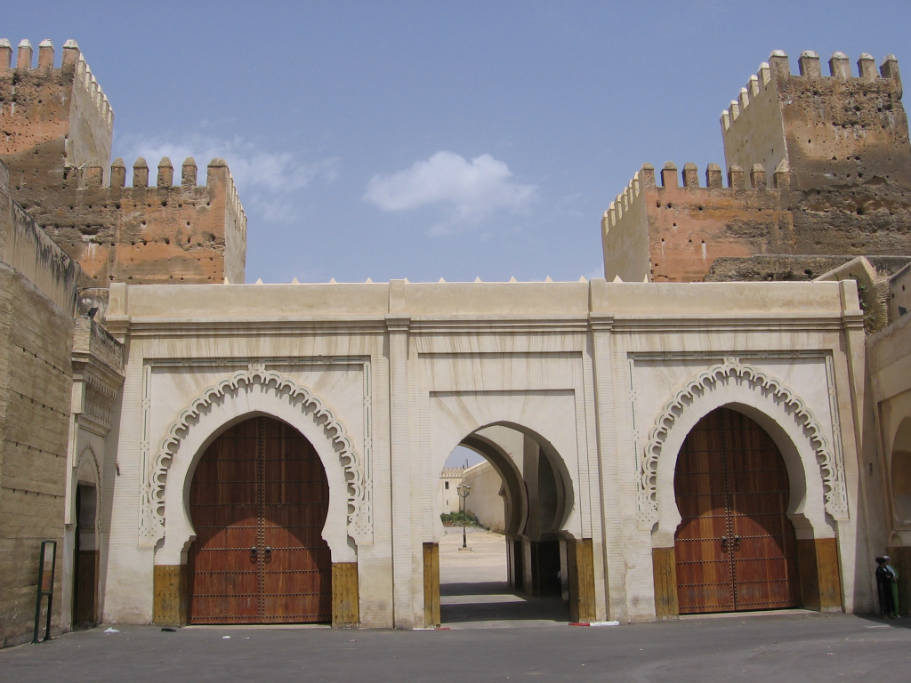 Fes or Fez is the third largest city of Morocco, with a population of approximately 1 million. It is the capital of the Fès-Boulemane region. Fas el Bali is a UNESCO World Heritage Site.